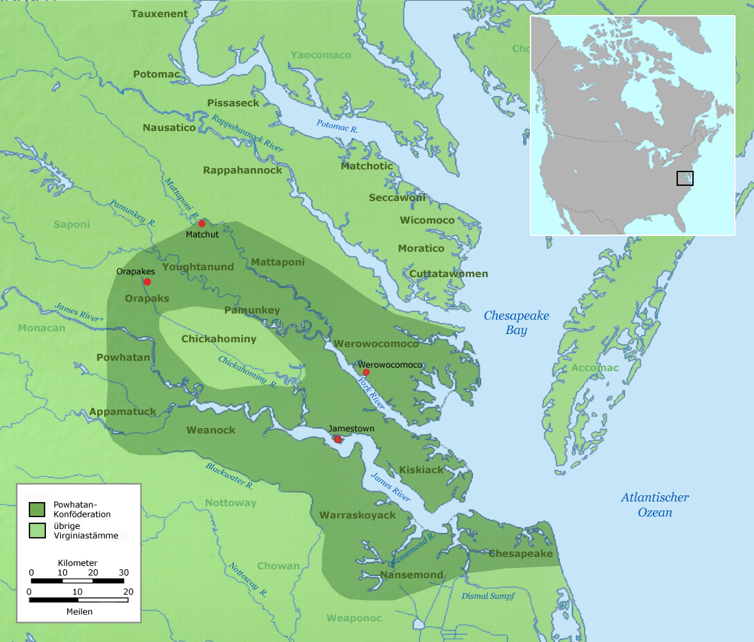 Tribal territories of Virginia Algonquin